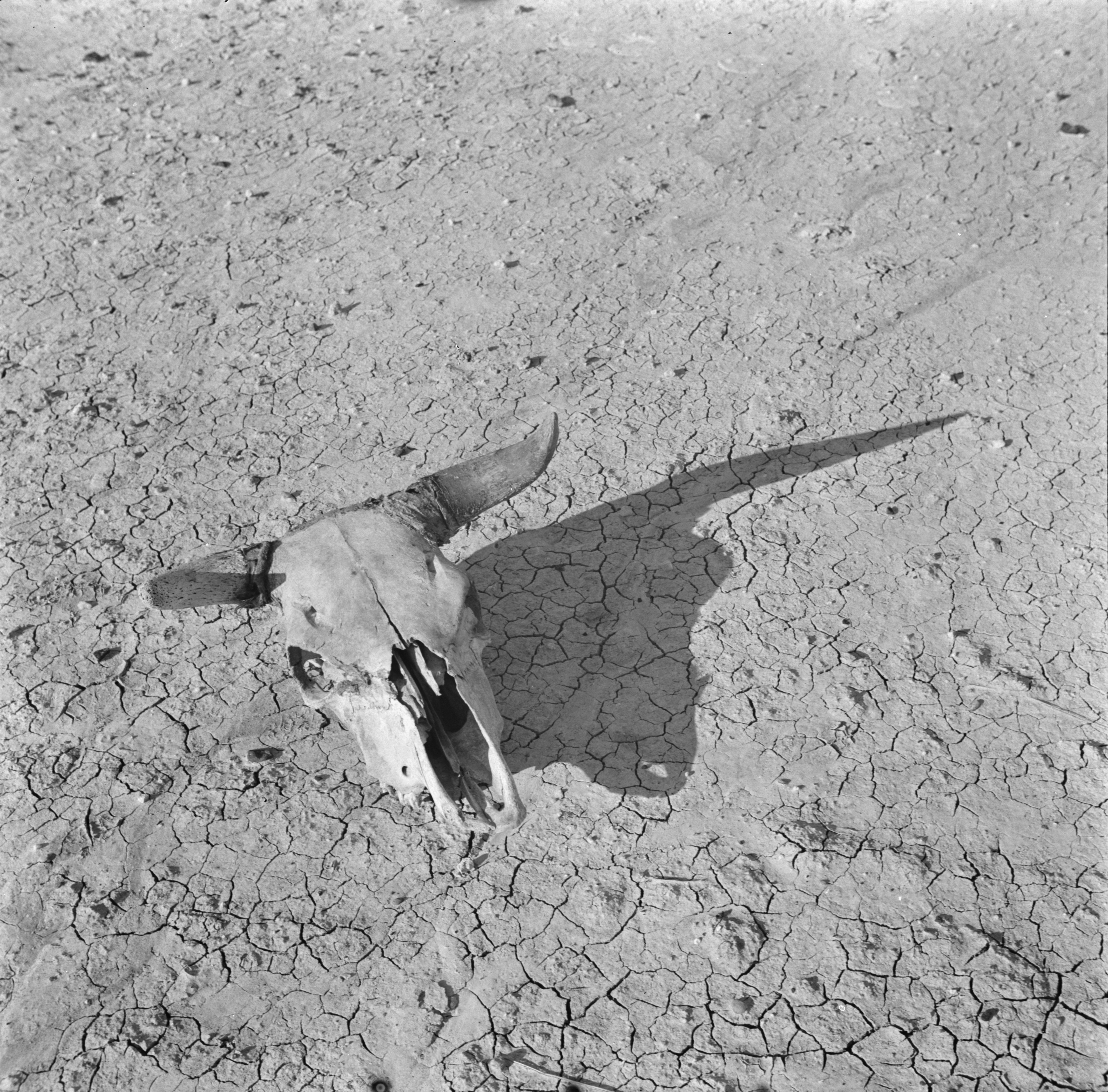 "The bleached skull of a steer on the dry sun-baked earth of the South Dakota Badlands". Taken for the Farm Security Administration, the photo caused controversy in 1937 when politicians and papers claimed the photo was staged to make drought conditions look worse than they were.